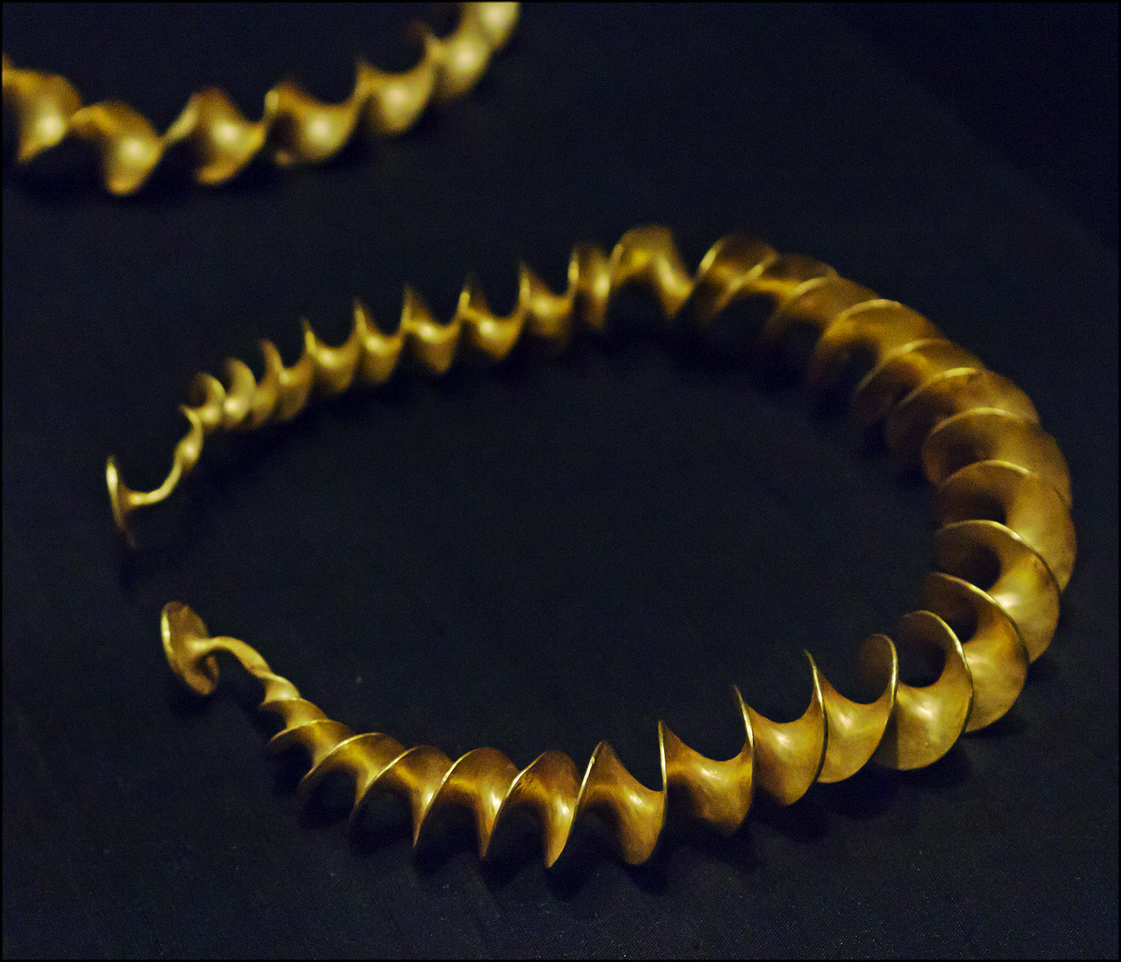 National Museum of Scotland. One of the Stirling Torcs. Found near Blair Drummond in 2009. One of four torcs dating from 300 to 100 BC. They had been buried in a wooden roundhouse (long rotted away). This torc has disc-shaped terminals and is made from a twisted ribbon of gold, a simple design commonly made in Scotland and Ireland at the time.